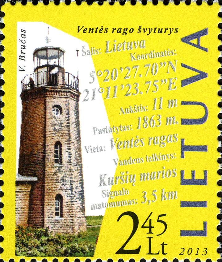 Stamps of Lithuania, 2013